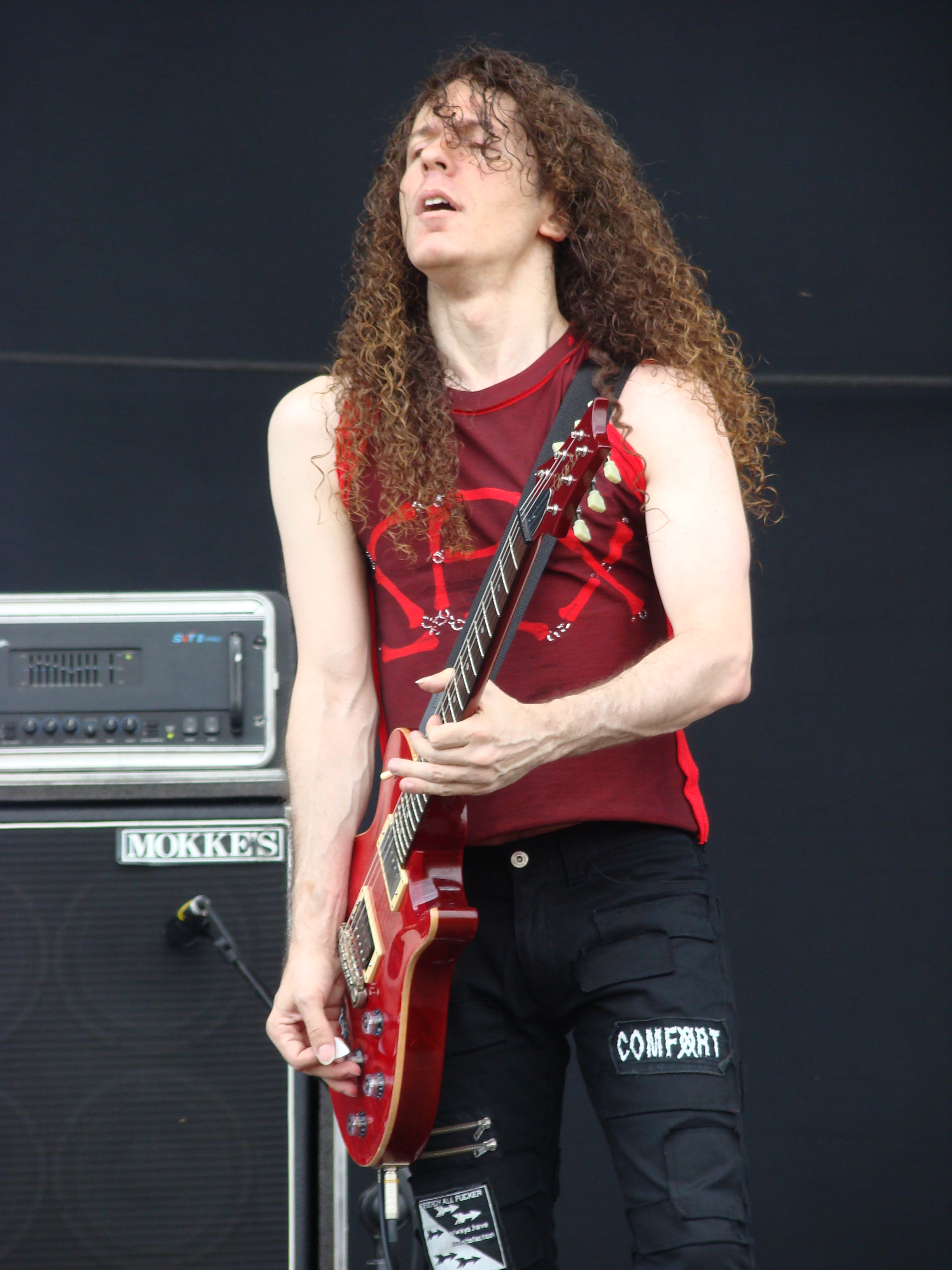 Marty Friedman at Gods of Metal 2009.